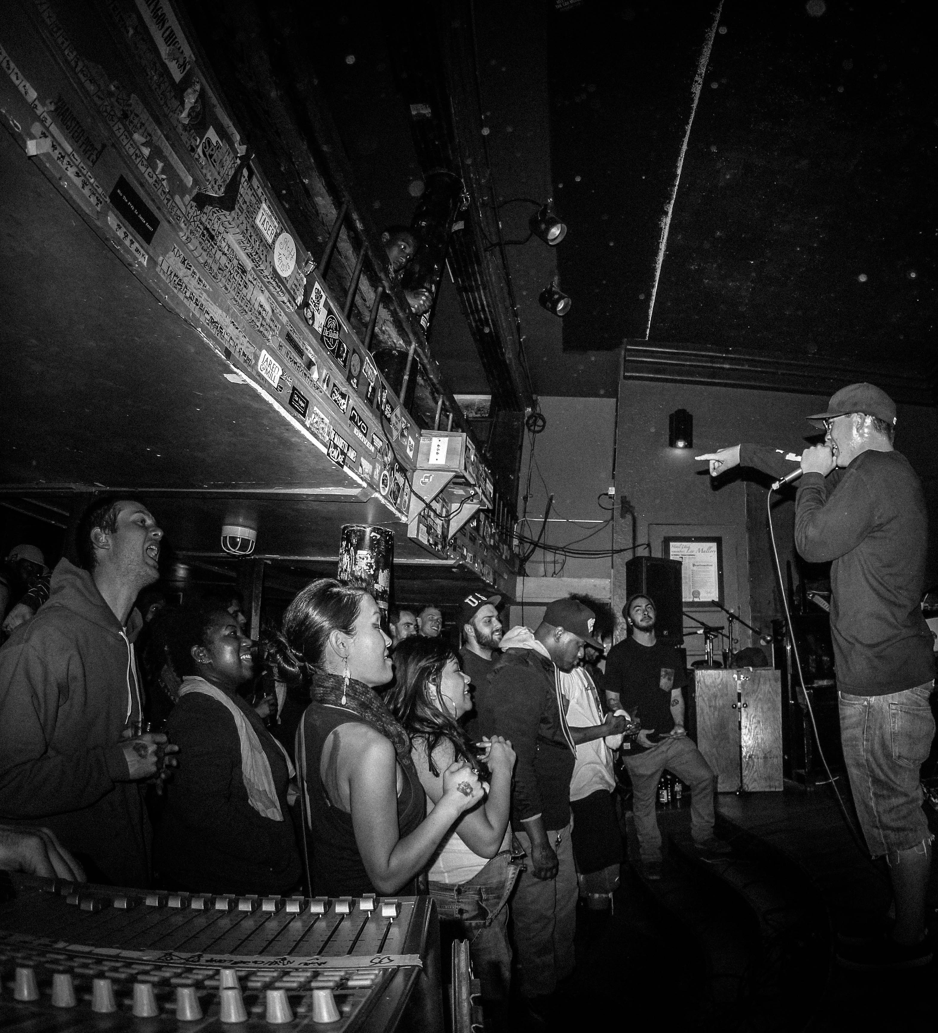 J.Lately performing at the Legionnaire Saloon (Oakland, CA)